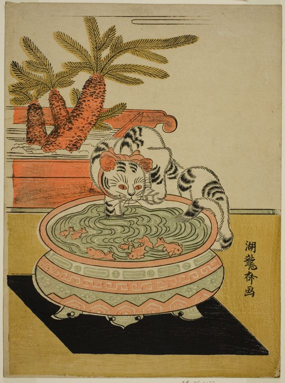 Cat fishing in fishbowl Measurements: 29.6 × 23.7 cm (sheet) Technique: Photomechanical reproduction Material: Silk Location: Princeton University Library. Graphic Arts. GA 2008.01136